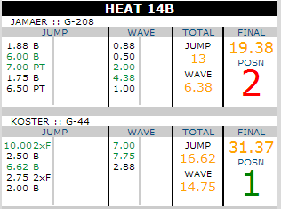 Live scoring, Waveriding, Worldcup Cold Hawaii 2013